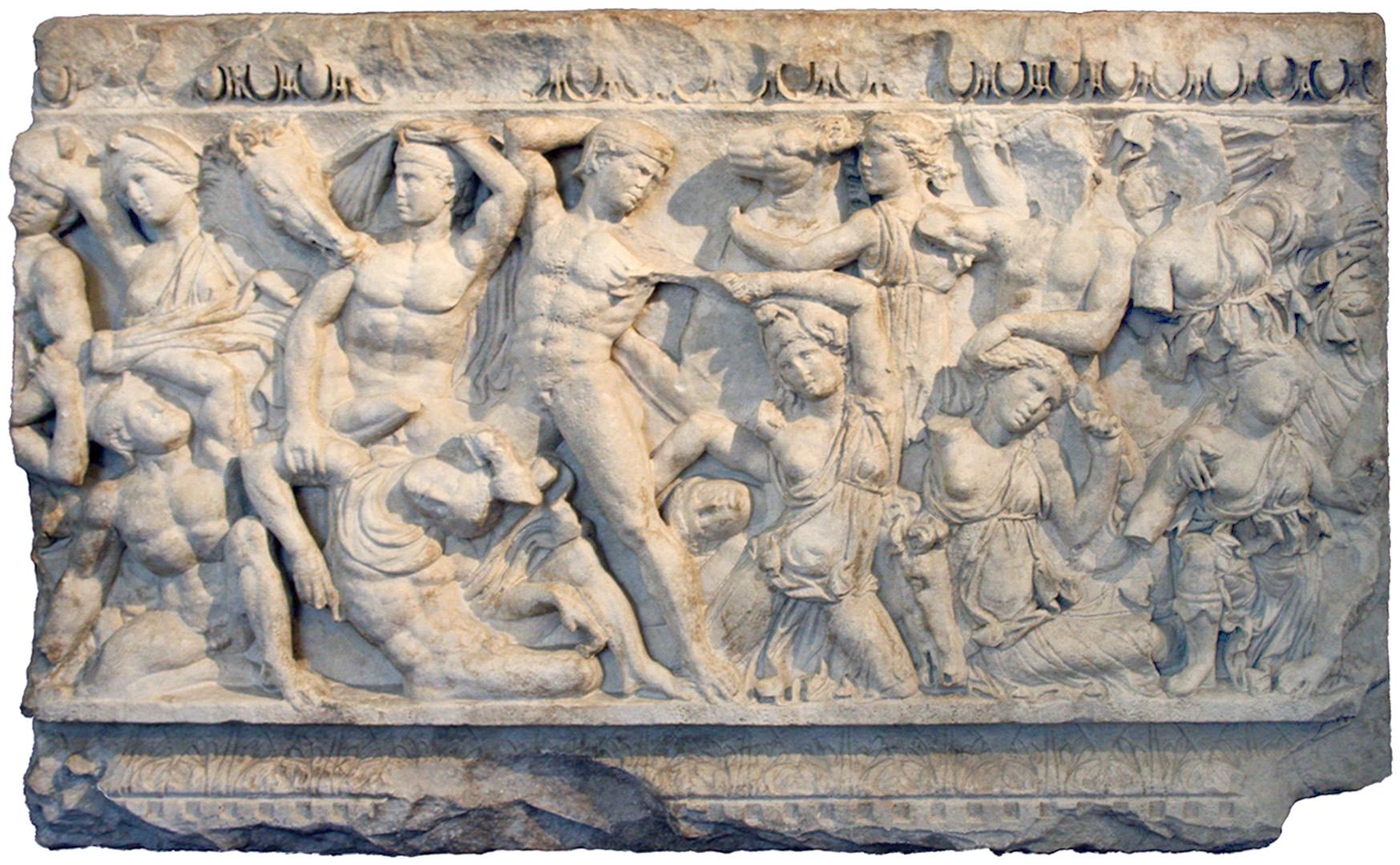 The Amazonomachy relief was discovered in 1998, reused (face down) in the floor ot the San Salvatore church in Brescia. It was sculpted using Greek marble in Attica in the 2nd or 3rd century AD. Today it is exhibited in the archaeological Santa Giulia Museum, in Brescia, Italy. Picture by Giovanni Dall'Orto, June 25 2011.